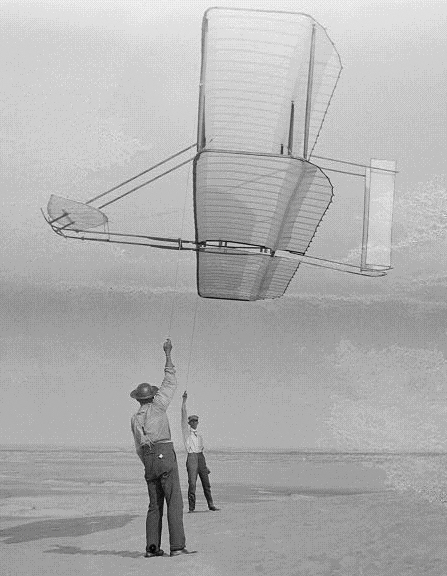 1902 Wright Brothers glider